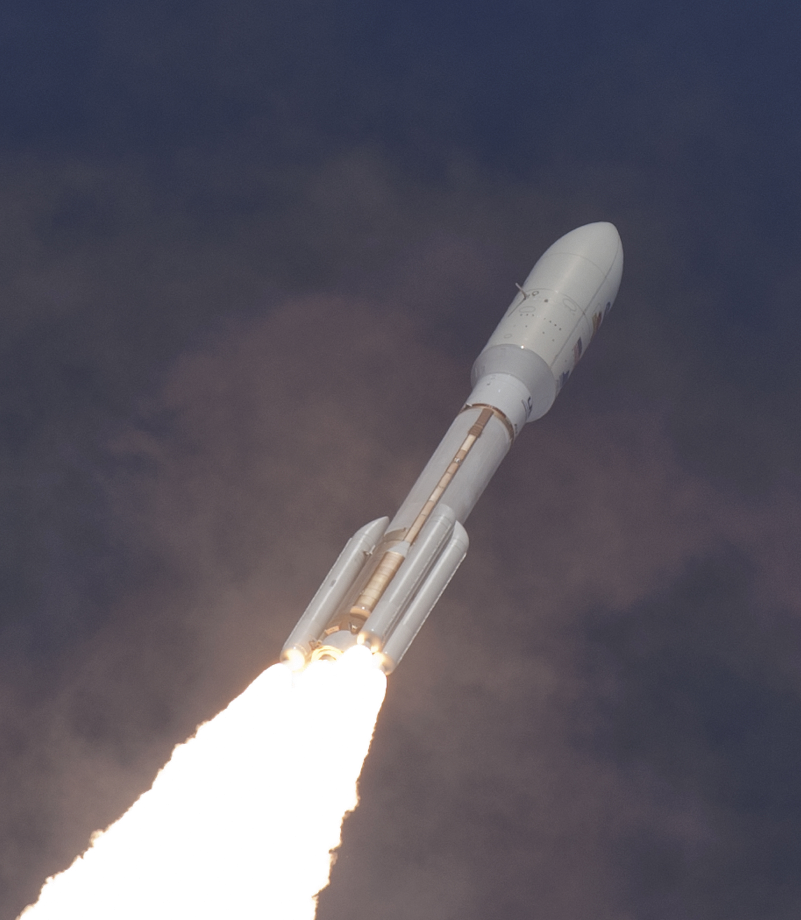 CAPE CANAVERAL AIR FORCE STATAION, Fla. -- An Atlas V evolved expendable launch vehicle carries NASA's Mars Science Laboratory from Cape Canaveral Air Force Station on Nov. 26. The lab's Rover Curiosity is scheduled to land on Mars in August 2012.